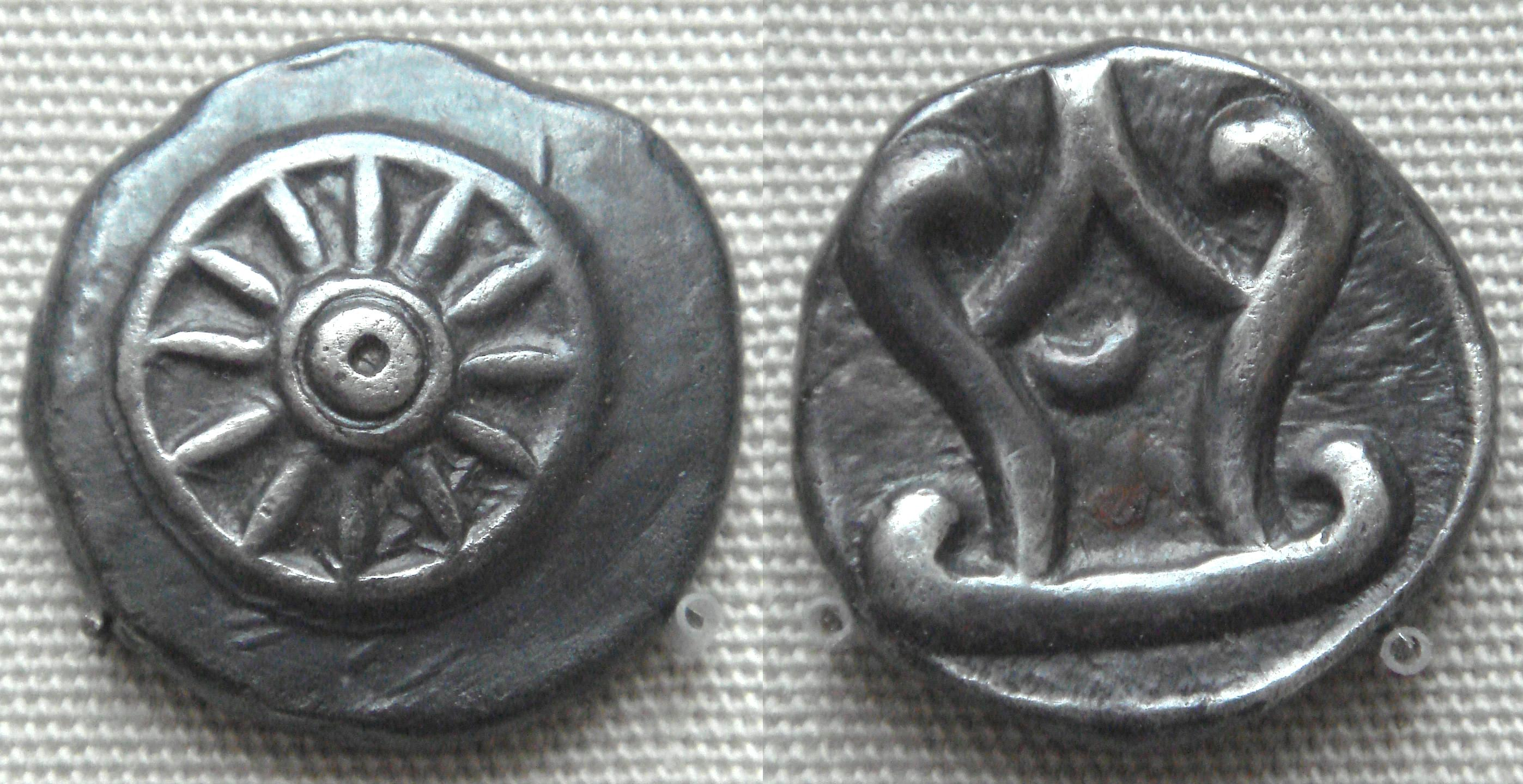 Mon_Kingdom_silver_wheel_tankas_South_Burma_8th_century_CE